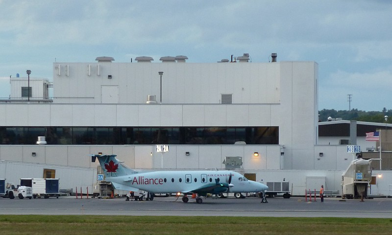 Air Canada/Air Georgian Beechcraft 1900D at Portland International Jetport. Photo taken from public property.